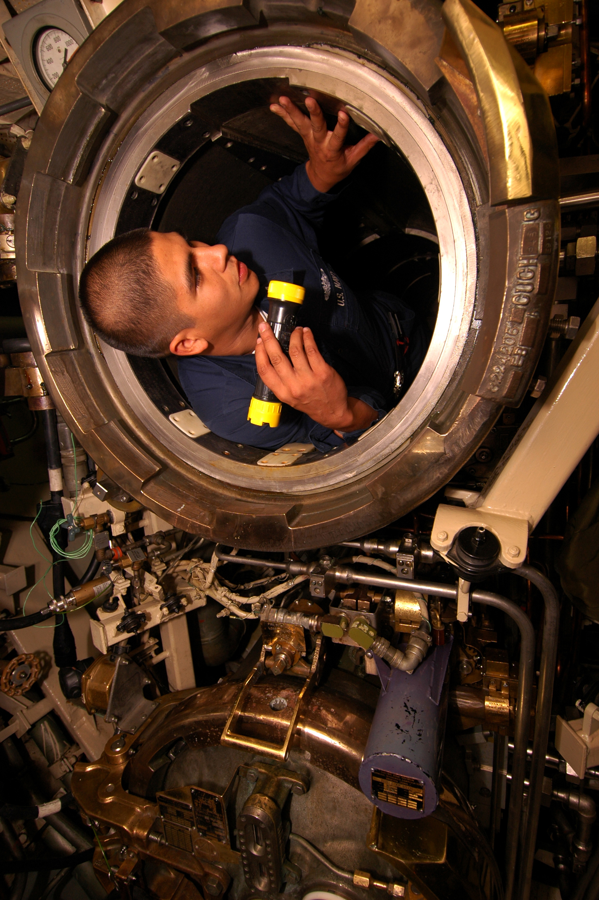 BREMERTON, Wash. (Sept. 4, 2009) Machinist's Mate 3rd Class Anthony Roman inspects a torpedo tube for damage and foreign debris aboard the ballistic-missile submarine USS Henry M. Jackson (SSBN 730). (U.S. Navy photo by Mass Communication Specialist 2nd Class Gretchen M. Albrecht/Released)